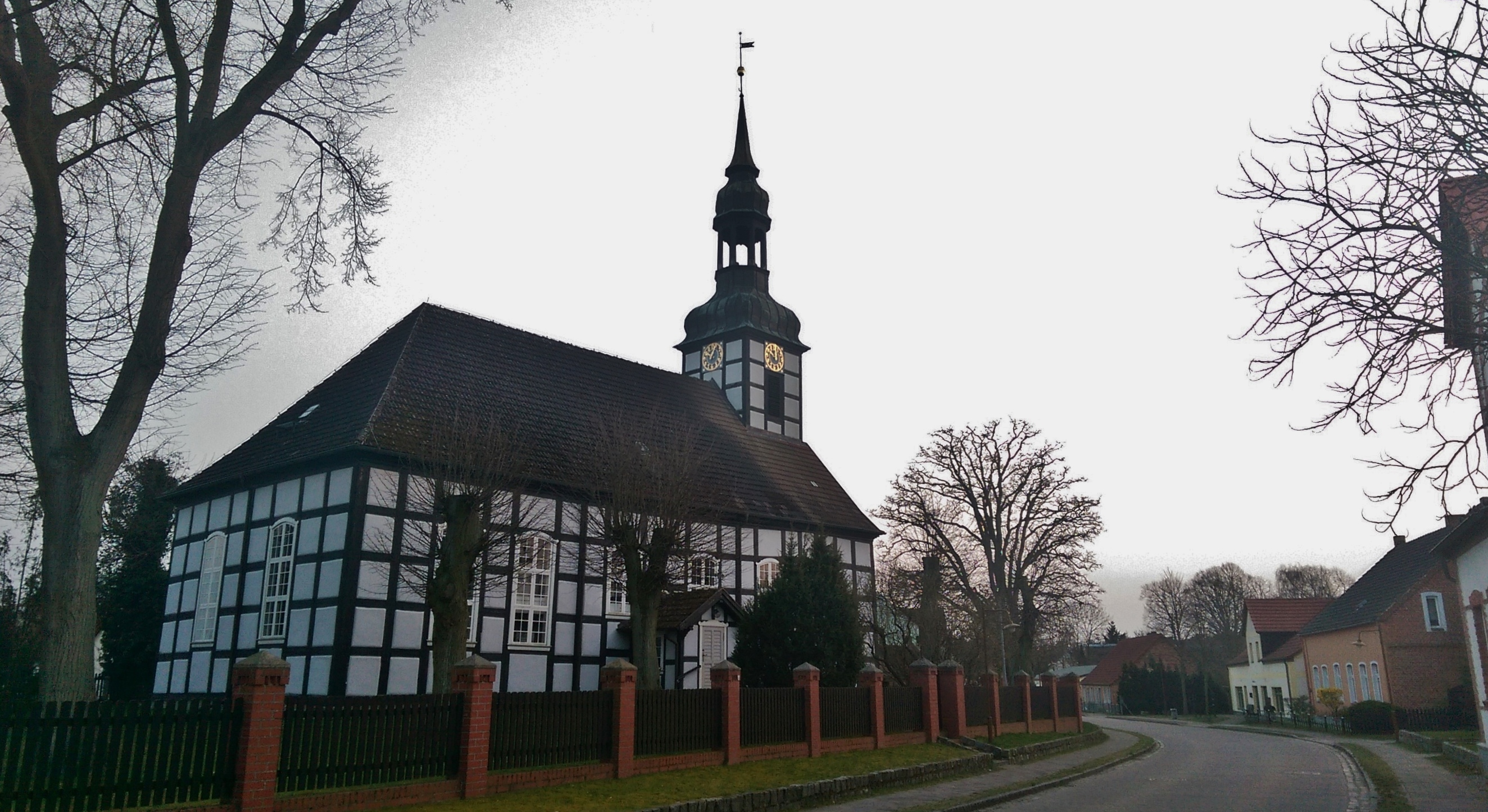 North-eastern view of church in Ahlbeck (near Ueckermünde) municipality, Vorpommern-Greifswald district, Mecklenburg-West Pomerania state, Germany